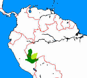 Range map Emperor tamarin (Saguinus imperator), green Bearded emperor tamarin (S. imperator subgrisescens), light green Black-chinned emperor tamarin (S. imperator imperator)